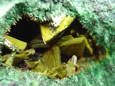 Marthozite Locality: Musonoi Mine, Kolwezi, Western area, Katanga Copper Crescent, Katanga (Shaba), Democratic Republic of Congo (Zaïre) (Locality at ) Size: small cabinet, 6.2 x 5.3 x 4.0 cm Marthozite Superb, unusually large marthozite crystals to 4.5 mm (twinned?) in a protective vug!